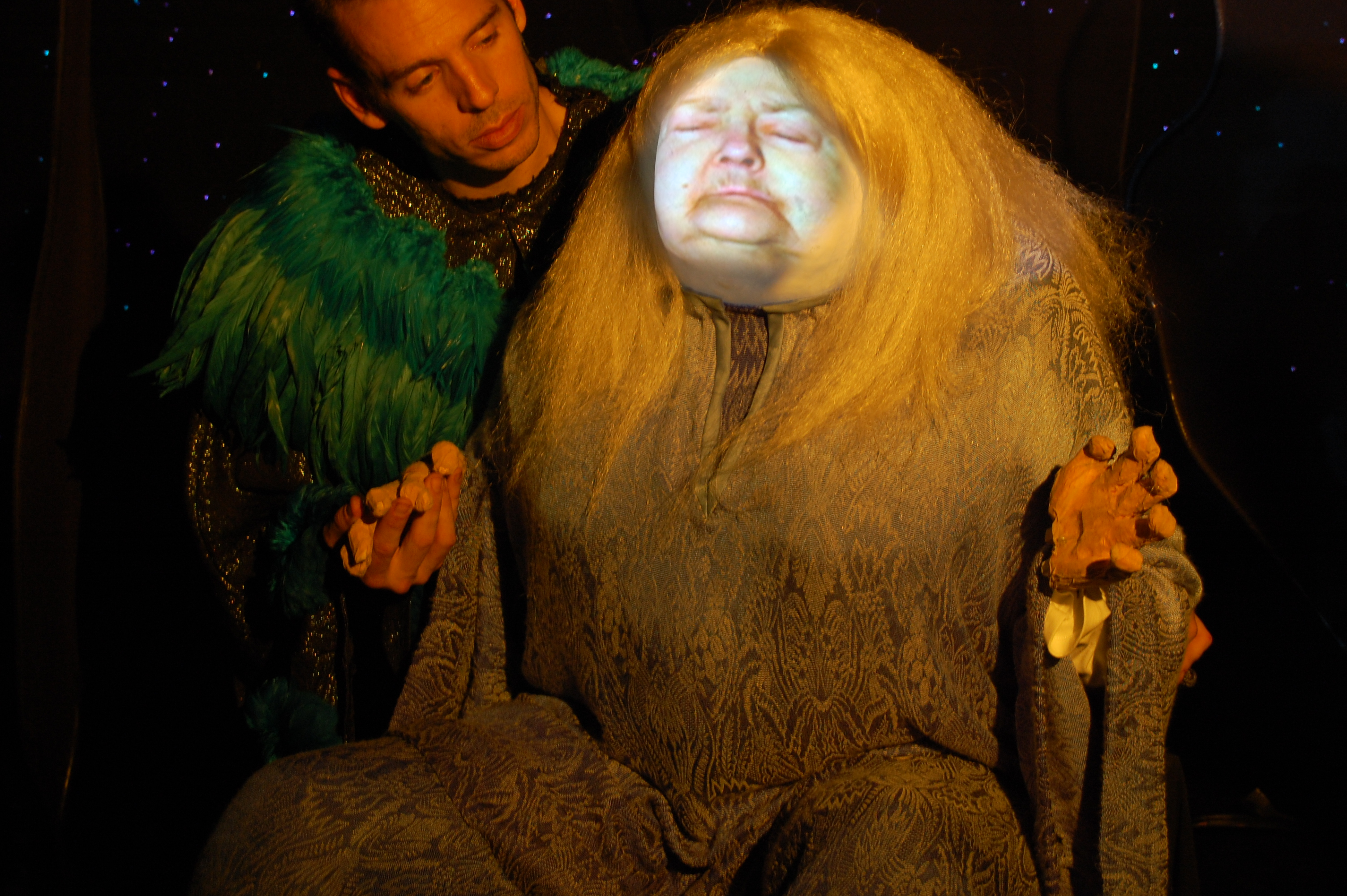 A Picture of Basil Twist with a "Video Puppet" depicting Lee Nagrin from the production Behind the Lid, June 2007.